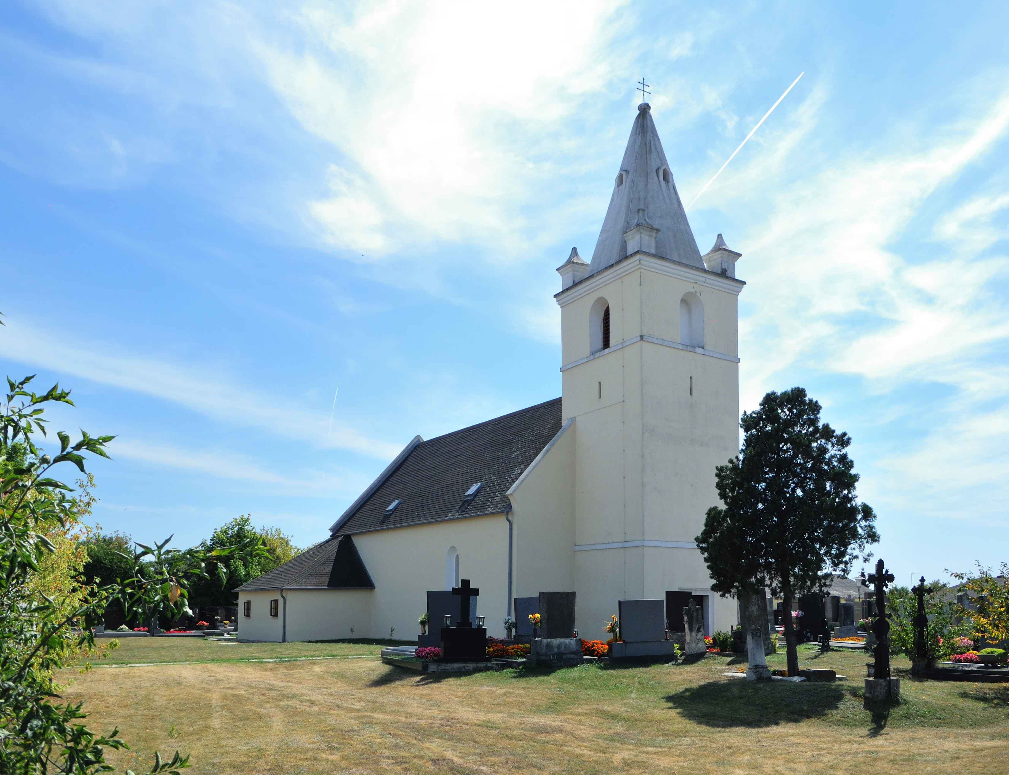 Church in Neudorf near Parndorf, Burgenland, Austria